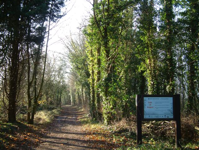 Ridgeway, Swan's Way & Icknield Way. Once the Icknield Way, Icknield House is close by, it is now part of the Swan's Way, and Ridgeway routes.